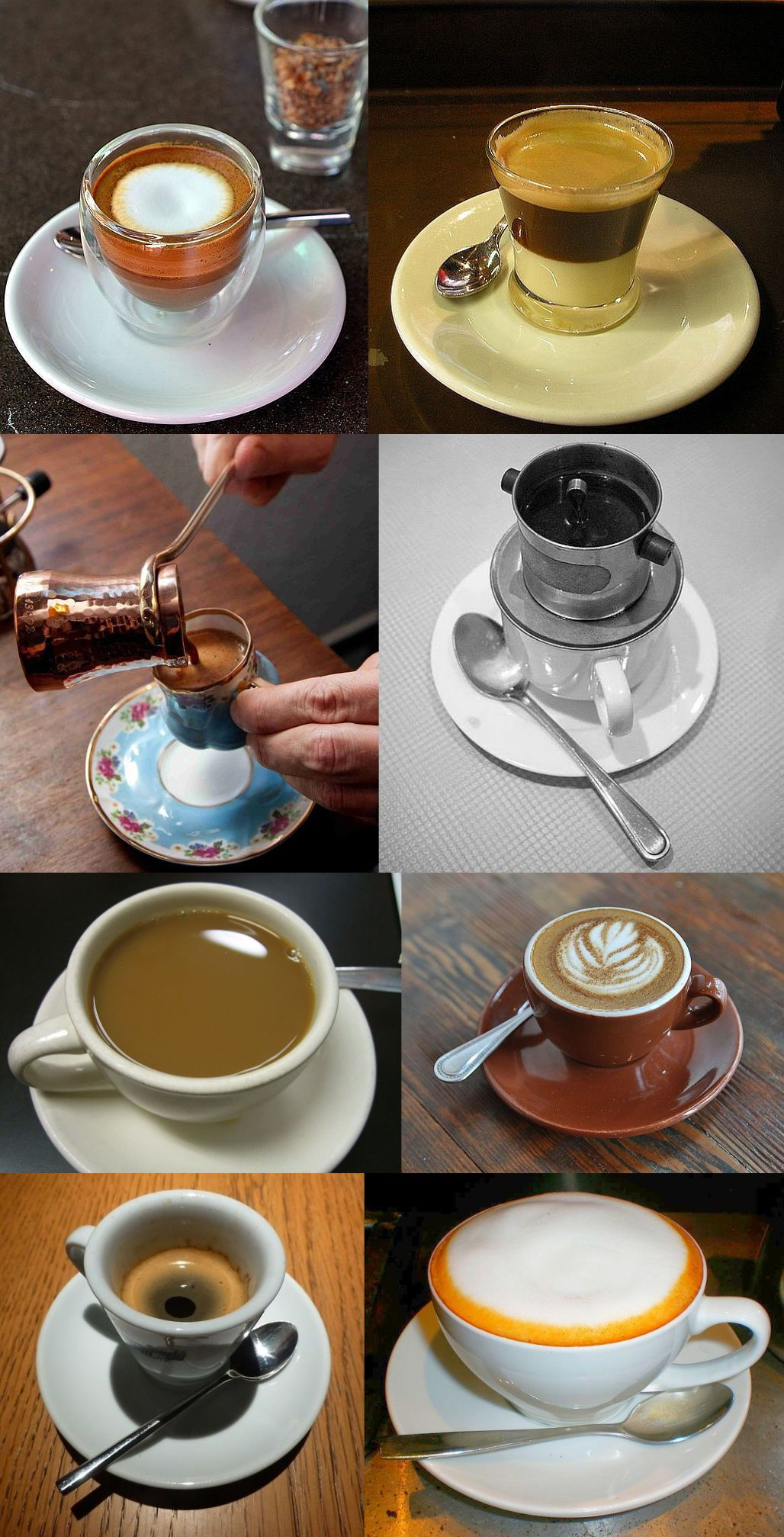 A montage of coffee drinks